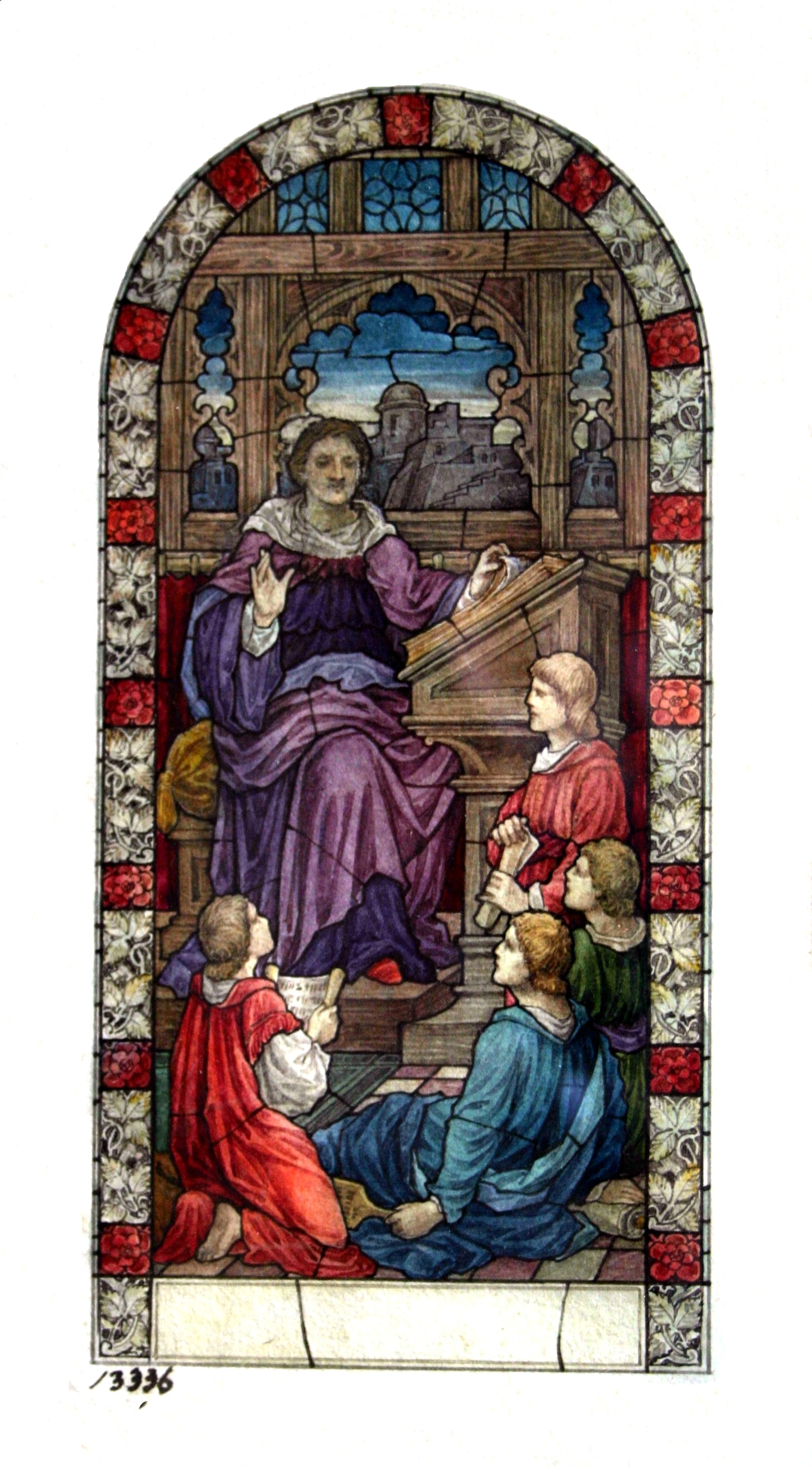 Own photographic image of own maquette original